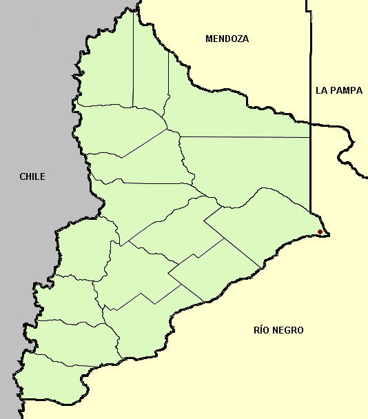 It shows administrative boundaries of Neuquén province in Argentina, its departments and its capital (Neuquén city).